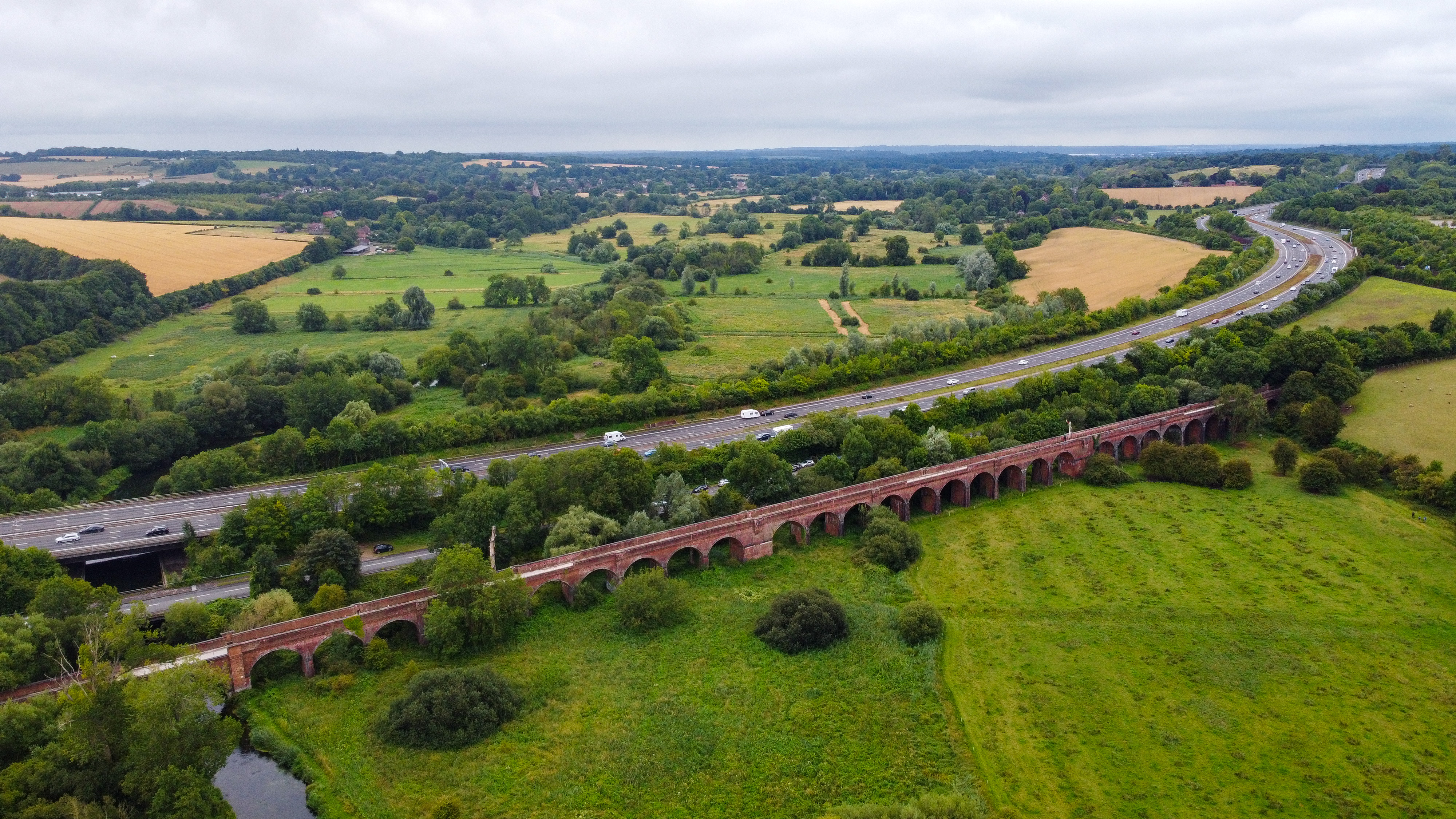 Aerial image of Hockley Railway Viaduct, with the M3 seen in the background, taken in July 2020 on Mavic Mini